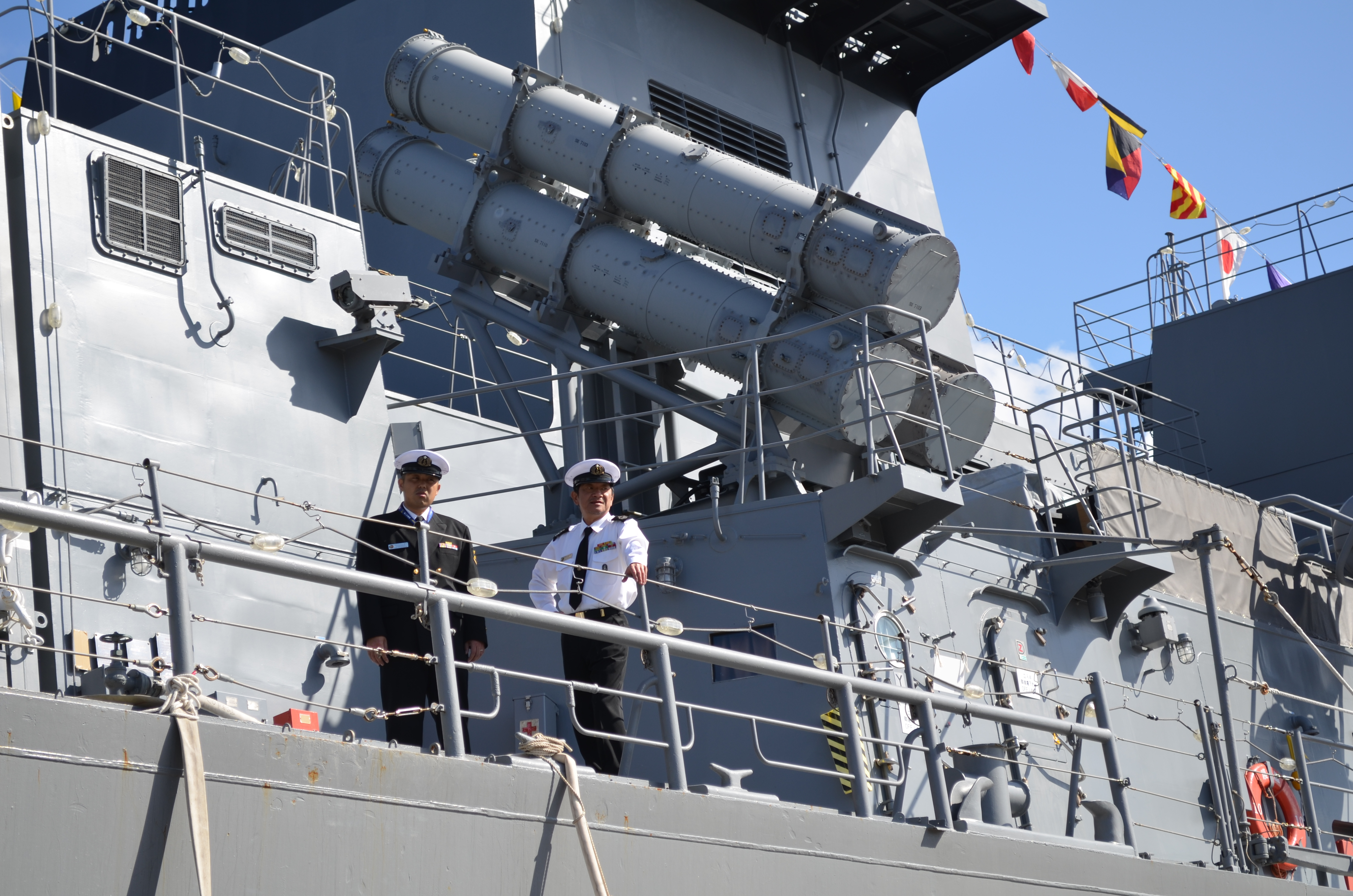 Photographs taken during day 5 of the Royal Australian Navy International Fleet Review 2013.